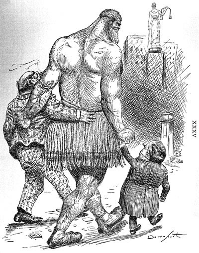 "As they go to the polls" 1900 Homer Davenport cartoon showing Mark Hanna, the trusts, and William McKinley (small). Republished in The Dollar or the Man? (1901), see here and here.